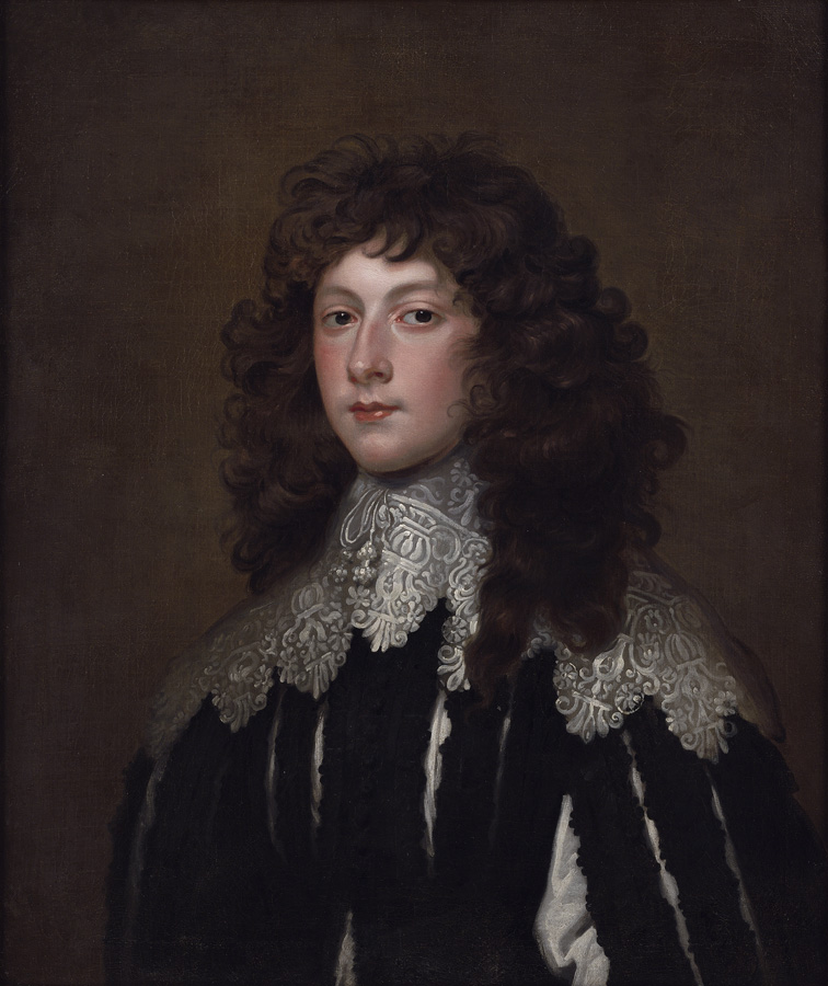 Anonymous. The Hon. Charles Cavendish. 18th century. Oil on Canvas. 76 × 64 cm. London, Philip Mould Fine Ltd. (July 2008).